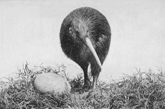 Kiwi and egg. Page 224 of Picturesque New Zealand by Paul Gooding, 1913